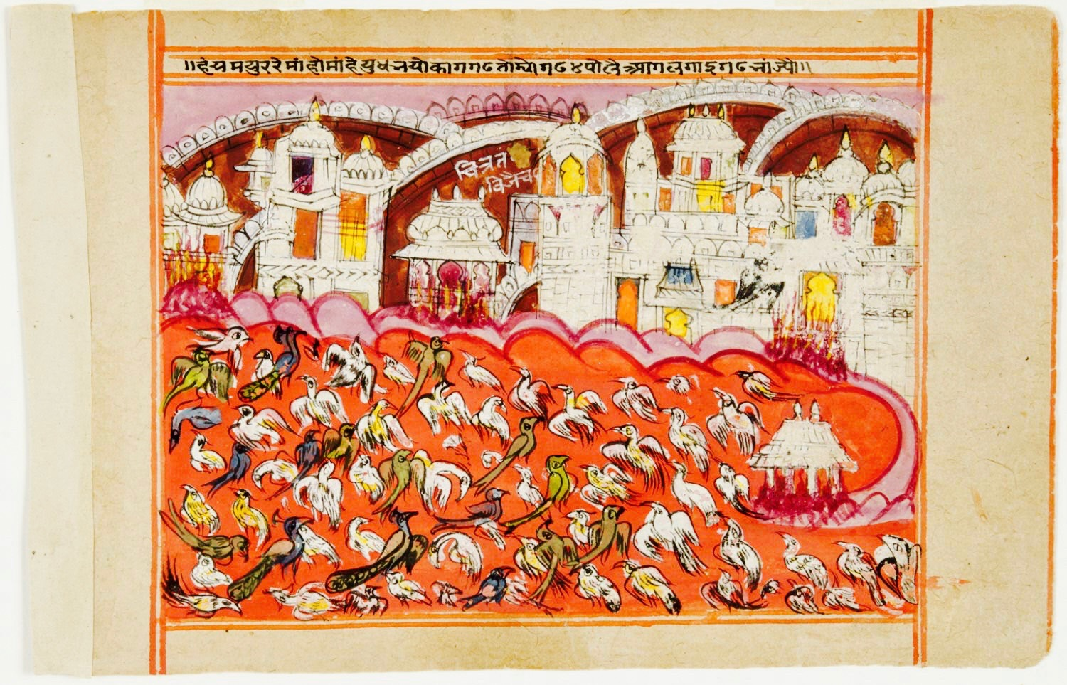 Source: Philadelphia Museum of Art A fable in Pancatantra Artist/maker unknown, Rajasthan, India, 18th century Medium: Opaque watercolor on paper Classification: Manuscripts Image: 4 7/8 × 6 13/16 inches (12.4 × 17.3 cm) Sheet: 6 1/16 × 9 1/2 inches (15.4 × 24.1 cm) Curatorial Department: South Asian Art Credit Line: Stella Kramrisch Collection, 1994 PMA Object Number: 1994-148-458